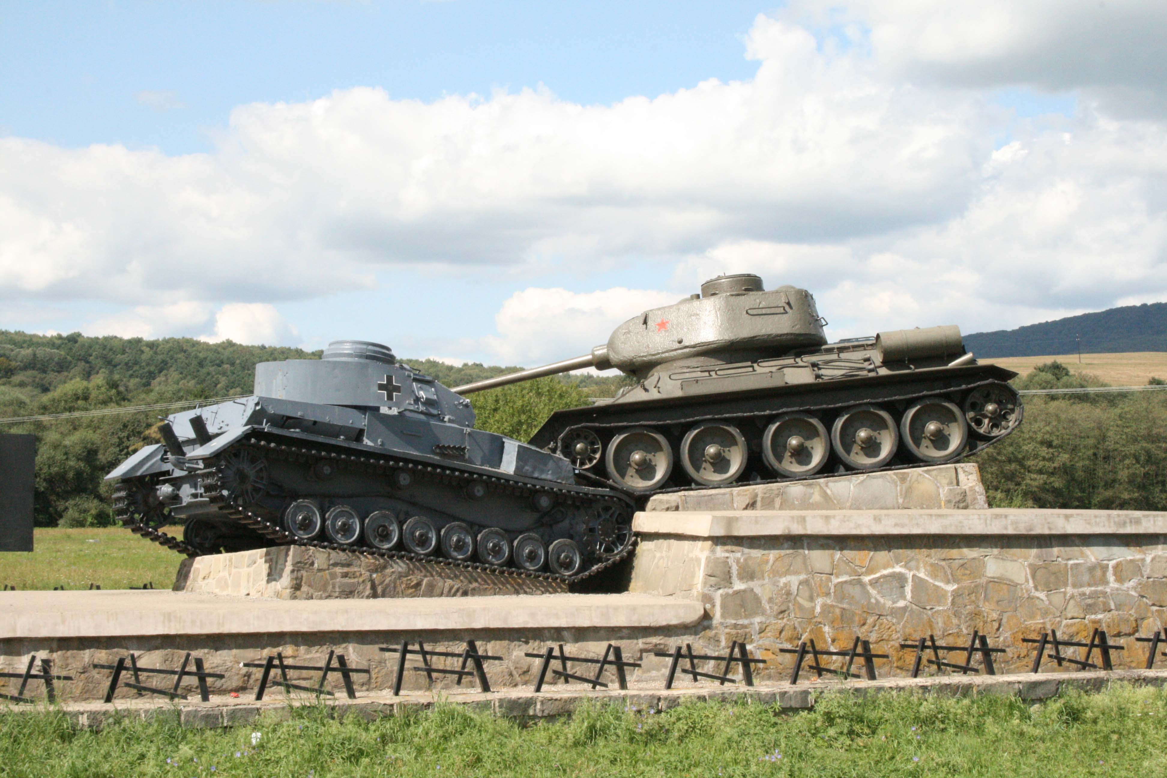 Monumenty z vojenského prírodného múzea. Údolie smrti - najväčšia tankova bitka na Slovensku v októbri 1944 v okrese Svidník.